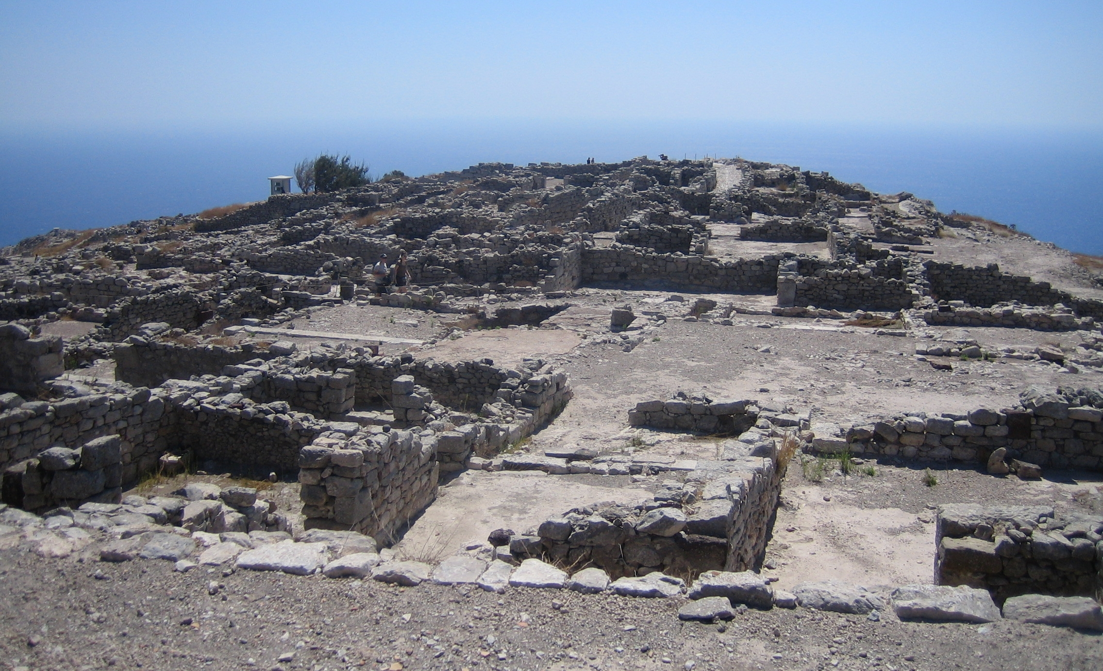 Ancient Thera.